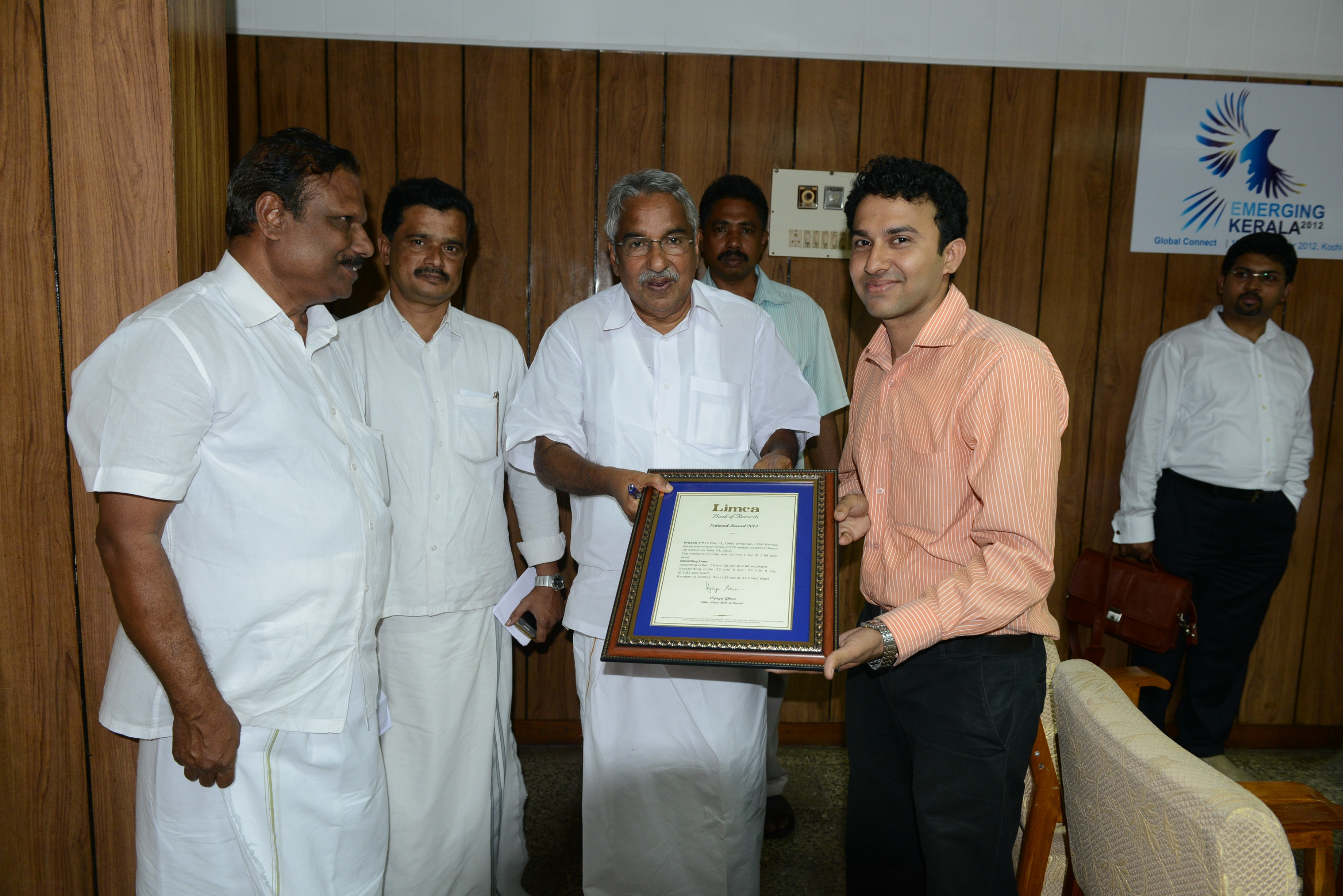 Prijesh Kannan receives Limca Book of Records for the Top Memory Power in India from Kerala Chief Minister Oommen Chandy